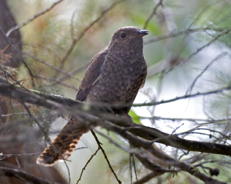 Fan-tailed Cuckoo (Cacomantis flabelliformis) 10th. December 2011, Grampian National Park, Victoria, Australia Distribution: Avibase map